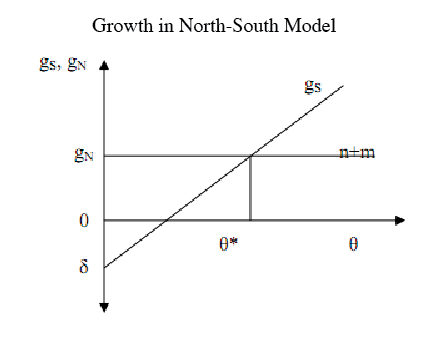 The implications for economic growth of terms of trade in the north-south model.